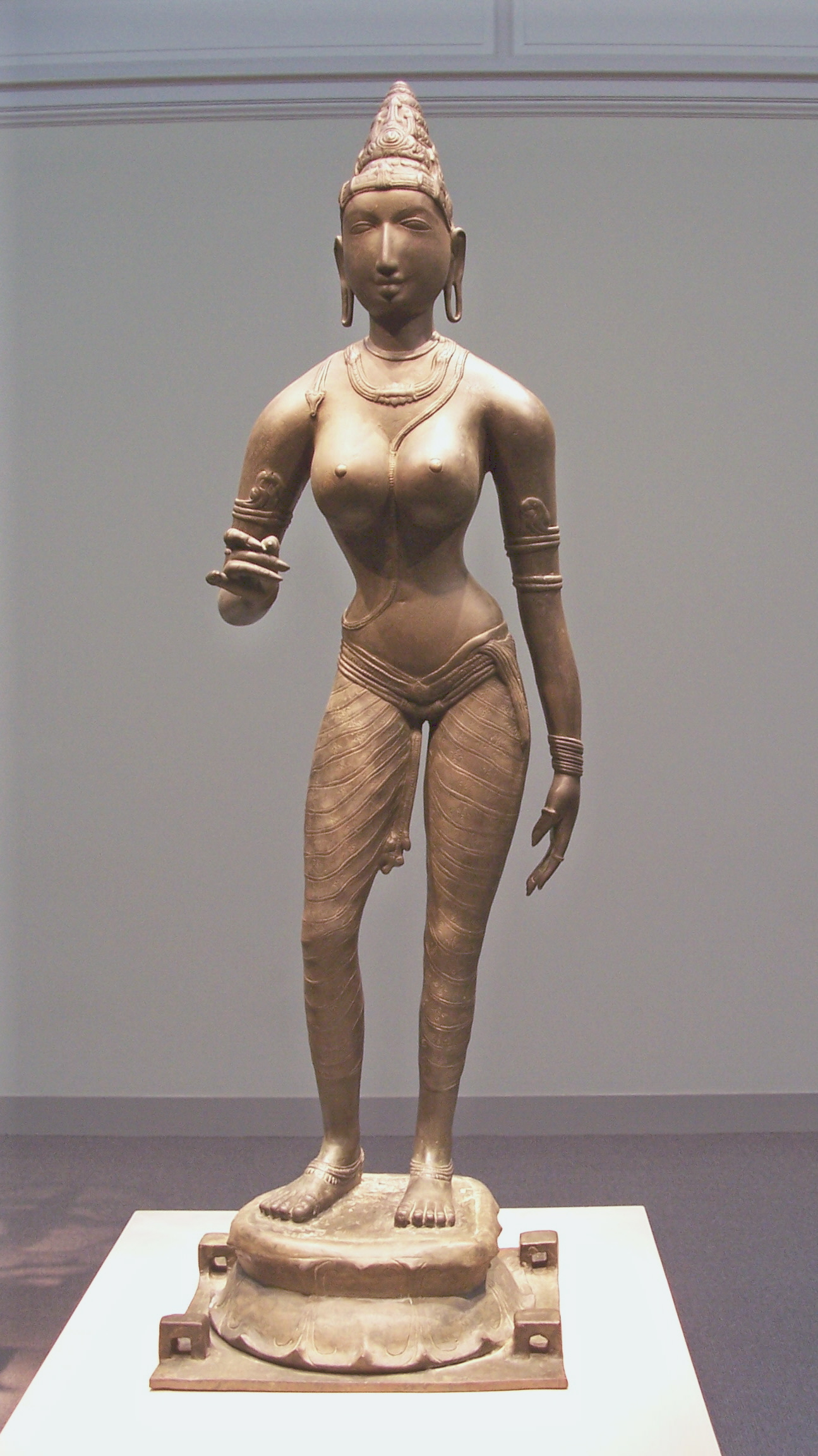 Chola dynasty, 10th century India Freer Gallery of Art, Washington DC